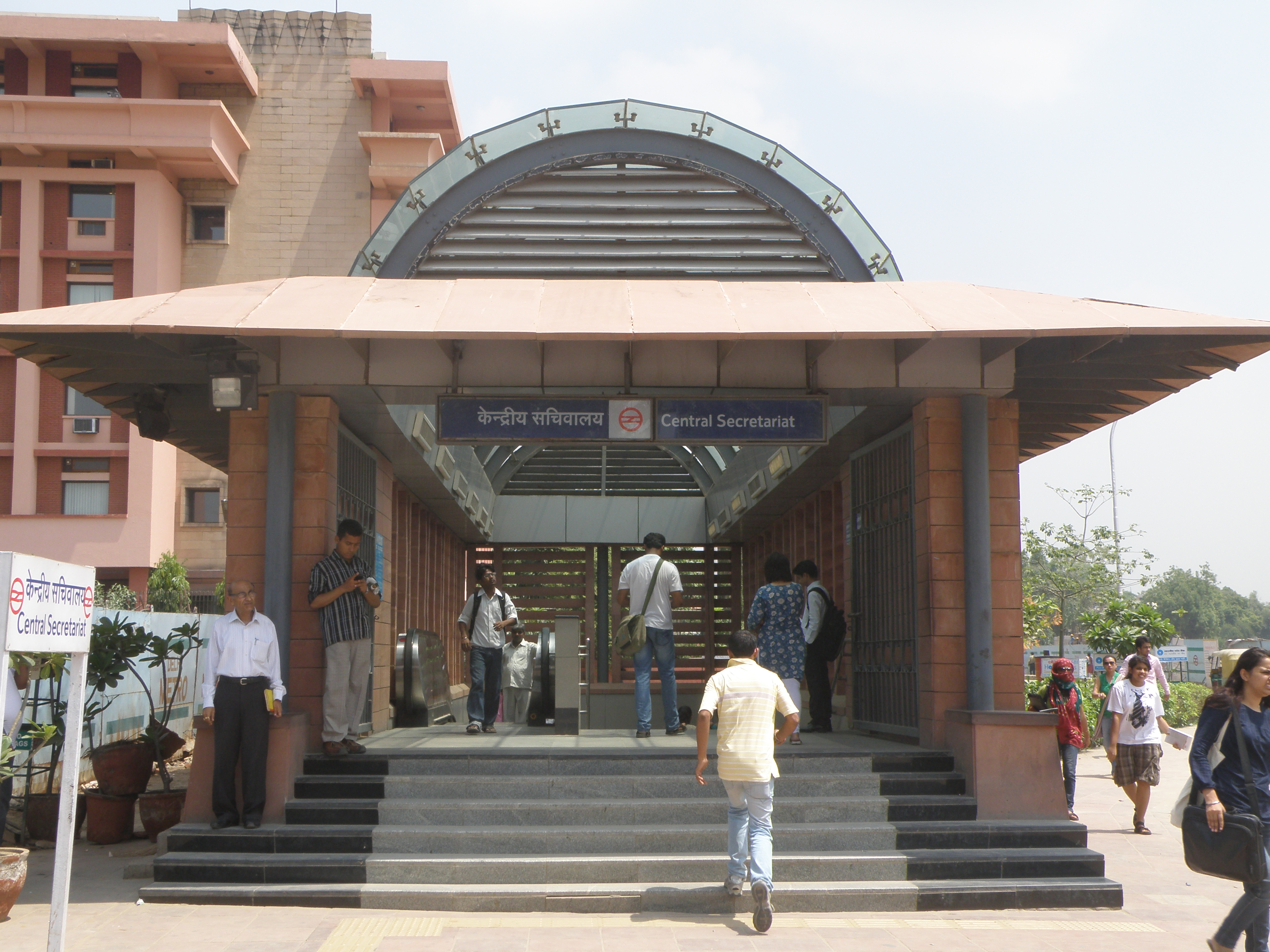 One of the entrances of the Central Secretariat metro station on Rafi Ahmed Kidwai Marg, in Delhi, India.